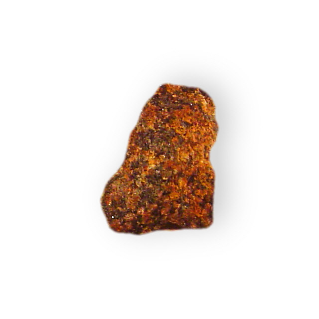 These mineral images are free to use how you wish.